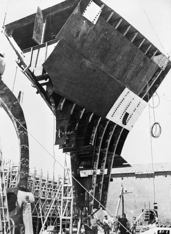 Shipbuilding in the Kaiser Shipyards in the USA during the Second World War Transfer of after peak section of a Liberty ship under construction at Richmond Shipyard Number Two of the Richmond Shipbuilding Corporation at Richmond, California.